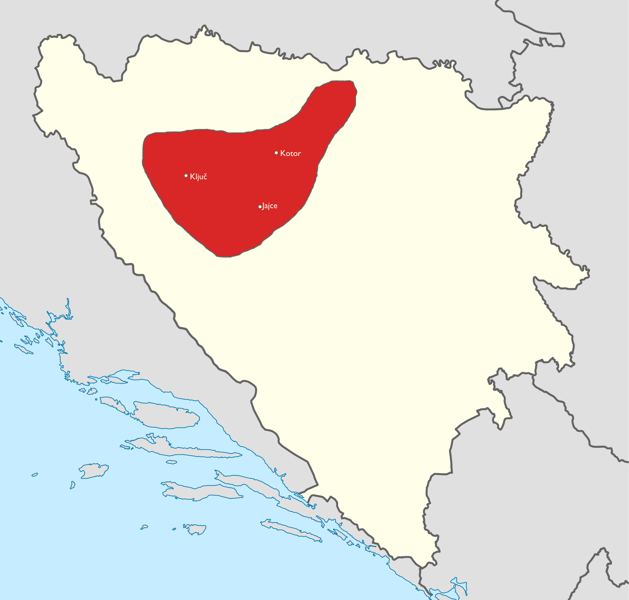 Map of Donji Krajevi, historical region